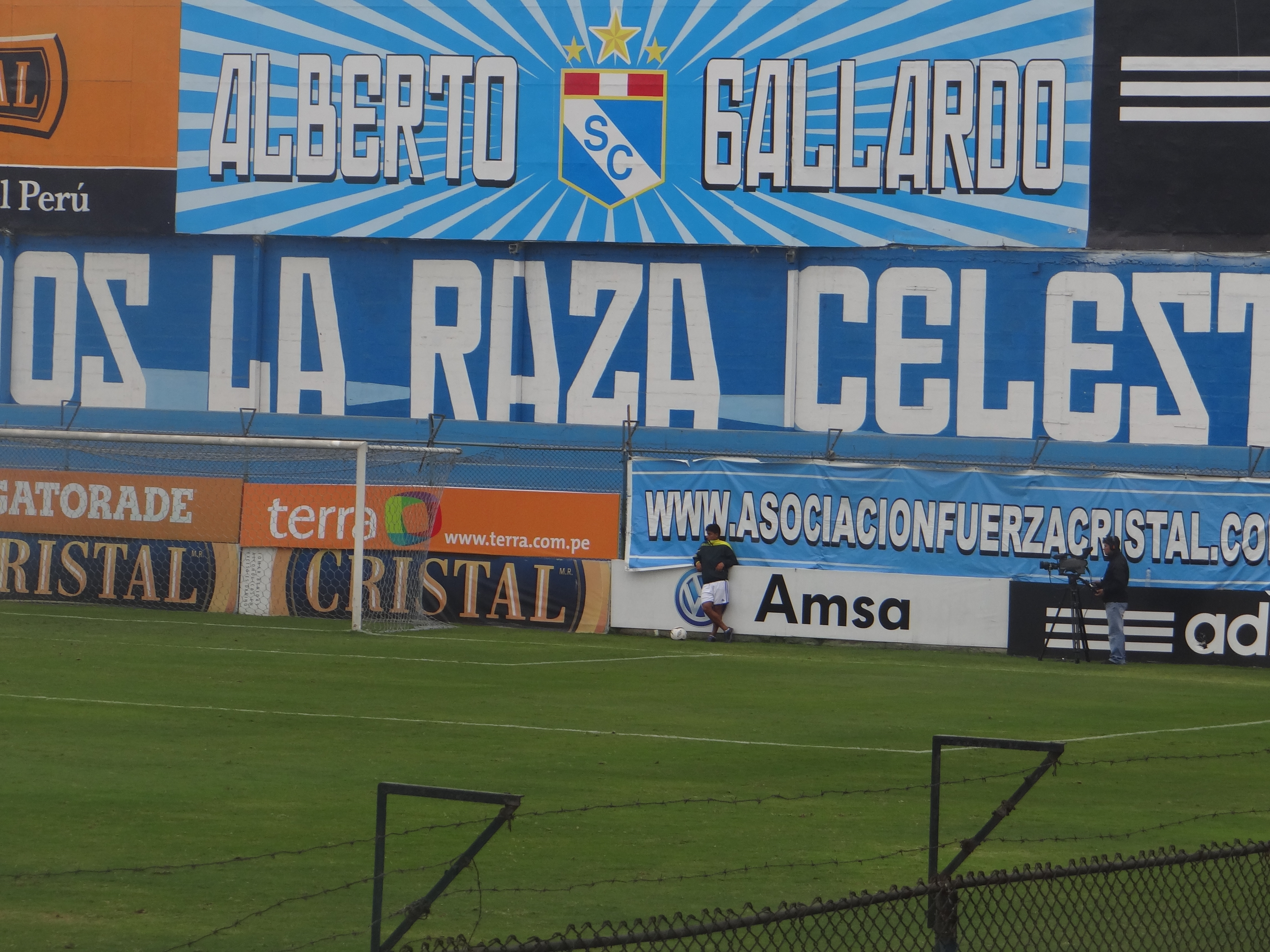 Alberto Gallardo Stadium